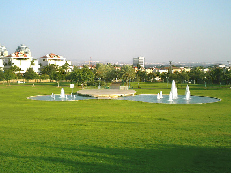 picture of 4 seasons Park in Hod hasharon, Israel. Known as Park Arba haonot.